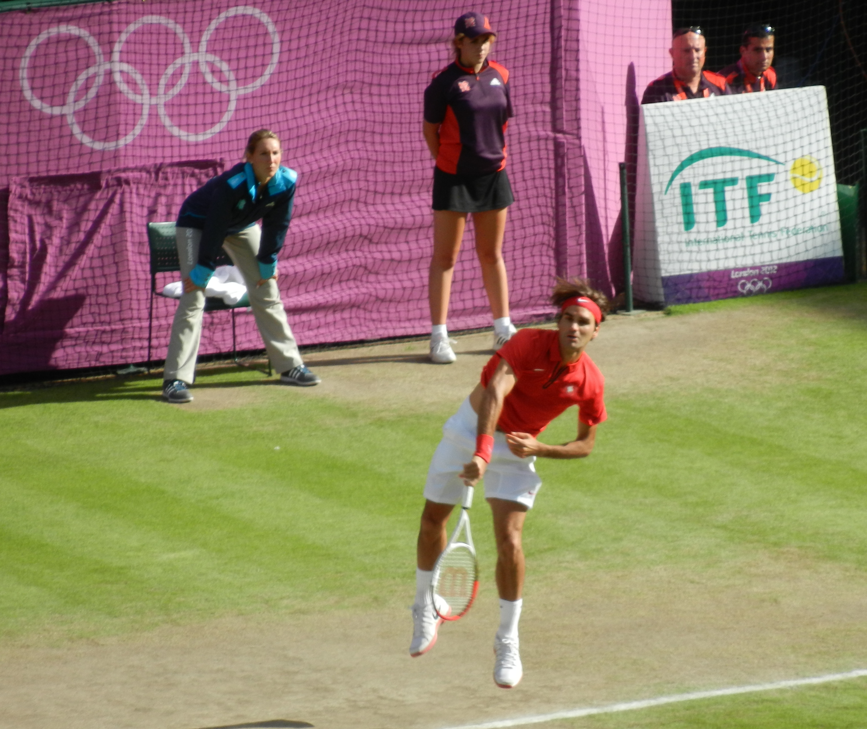 Roger Federer (SUI) serving against John Isner (USA) in their London 2012 Men's Singles quarterfinal match